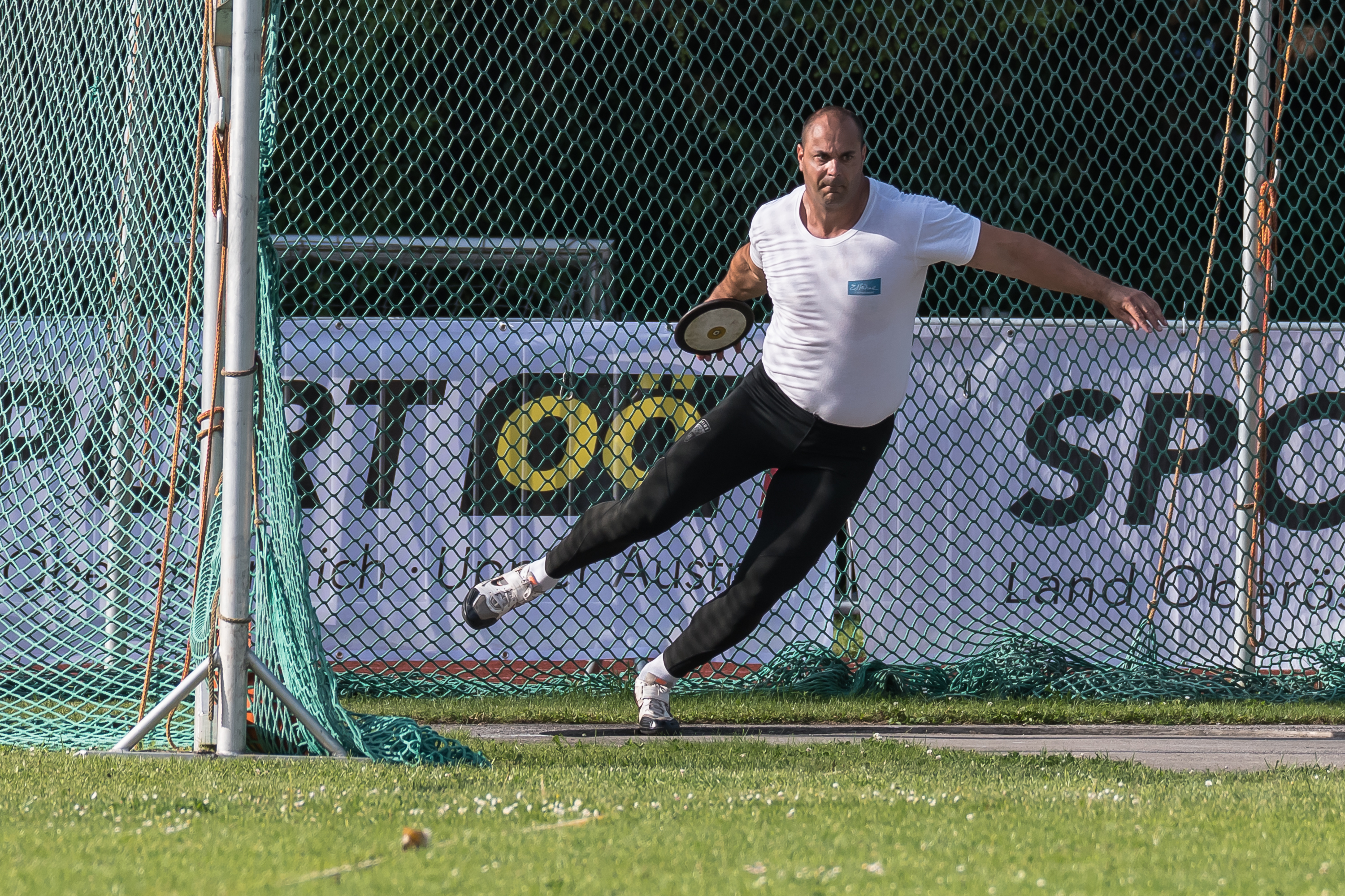 Leichtathletikgala Linz 2017 - Discus throw - Roland Varga